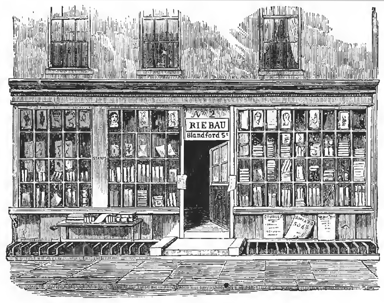 Riebau's Shop